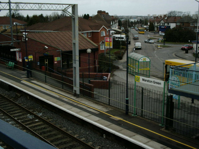 Marston Green Railway Station. View off footbridge looking down Holly Lane.